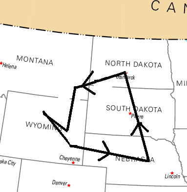 a conjectural map of the route of the La Verendrye brothers in 1742-1743.